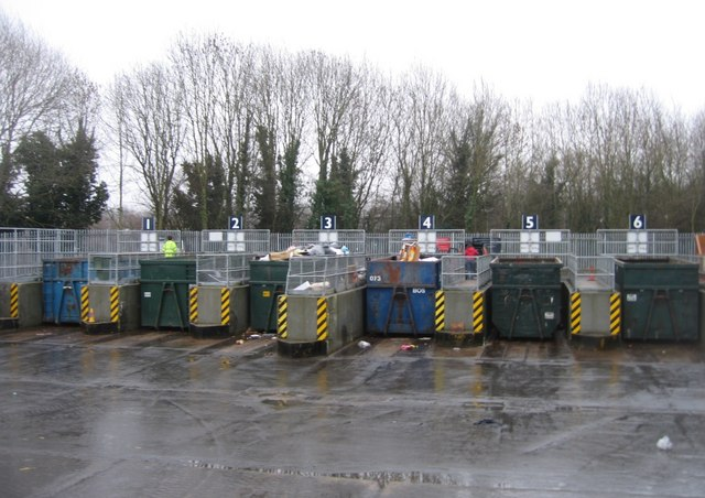 Household Waste Recycling Centre Basingstoke & Deane point out that these sites are no longer 'tips' or 'dumps.